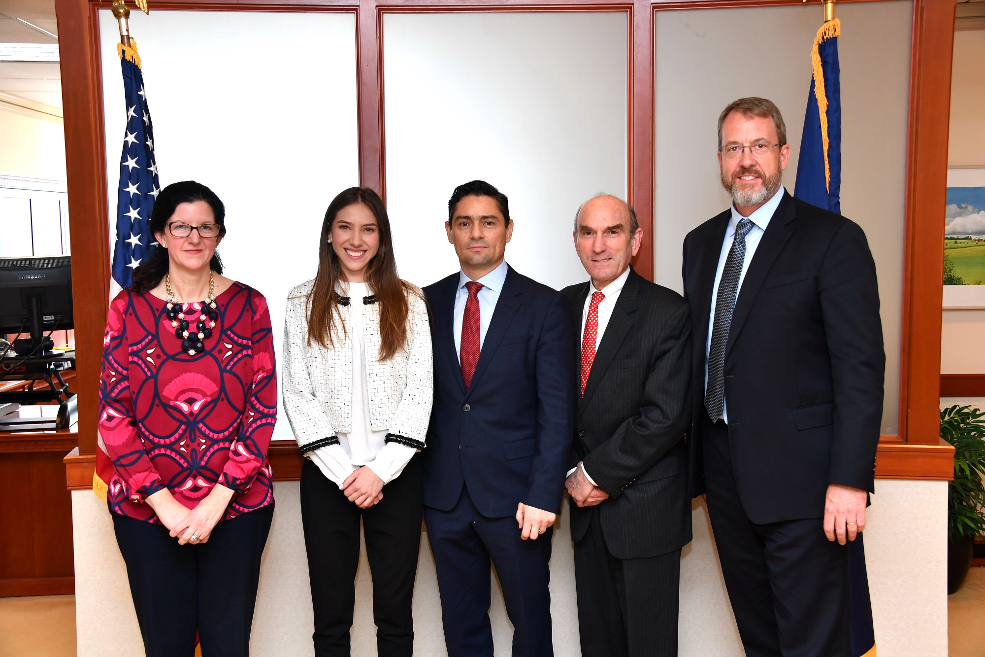 Assistant Secretary of State for Western Hemisphere Affairs Kimberly Breier and Special Representative for Venezuela Elliott Abrams meet with Fabiana Rosales, wife of Interim President Juan Guaido of Venezuela, and Venezuelan Ambassador to the U.S. Carlos Vecchio at the U.S. Department of State in Washington, D.C., on March 27, 2019. [State Department photo/ Public Domain]